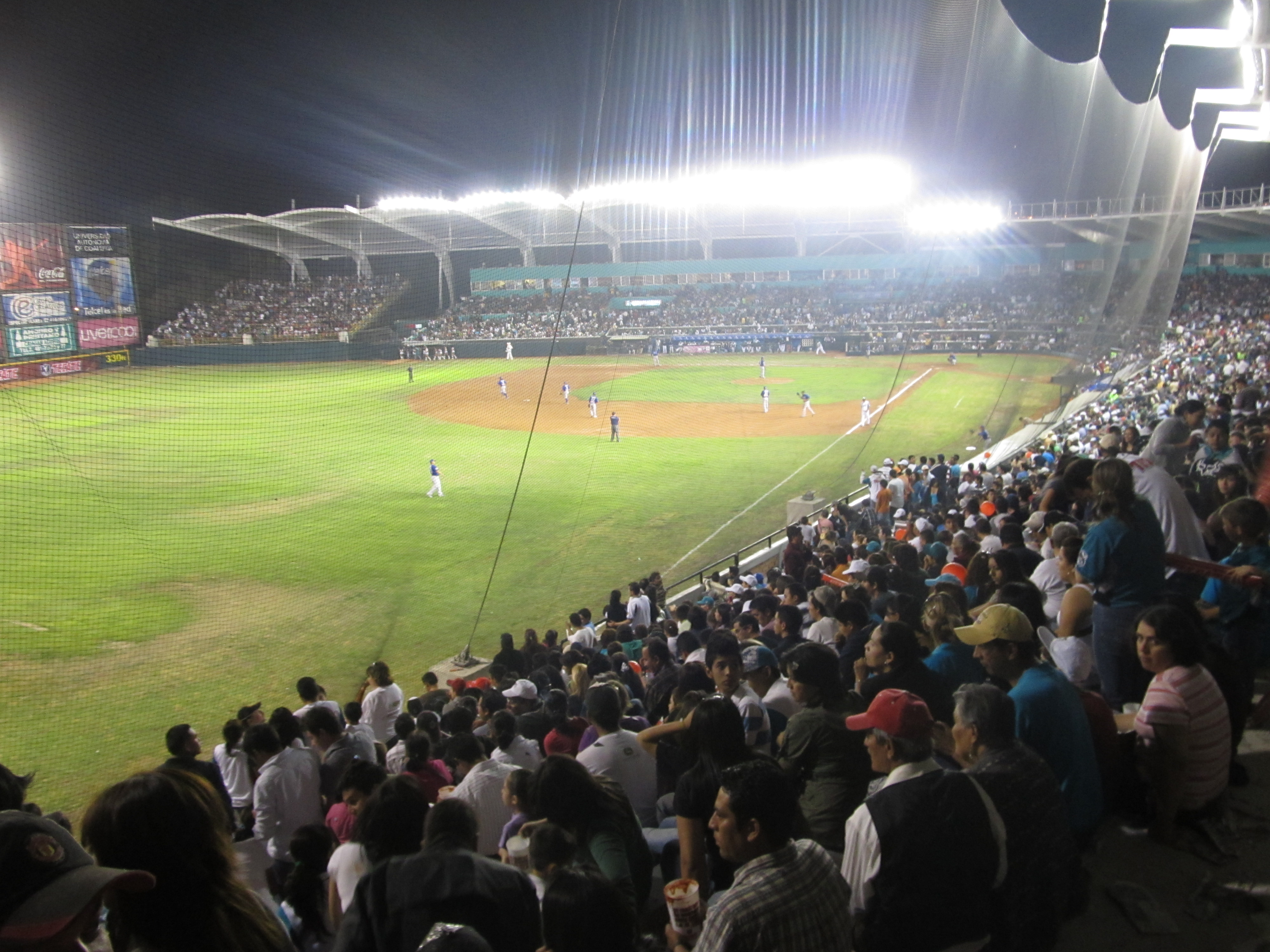 New